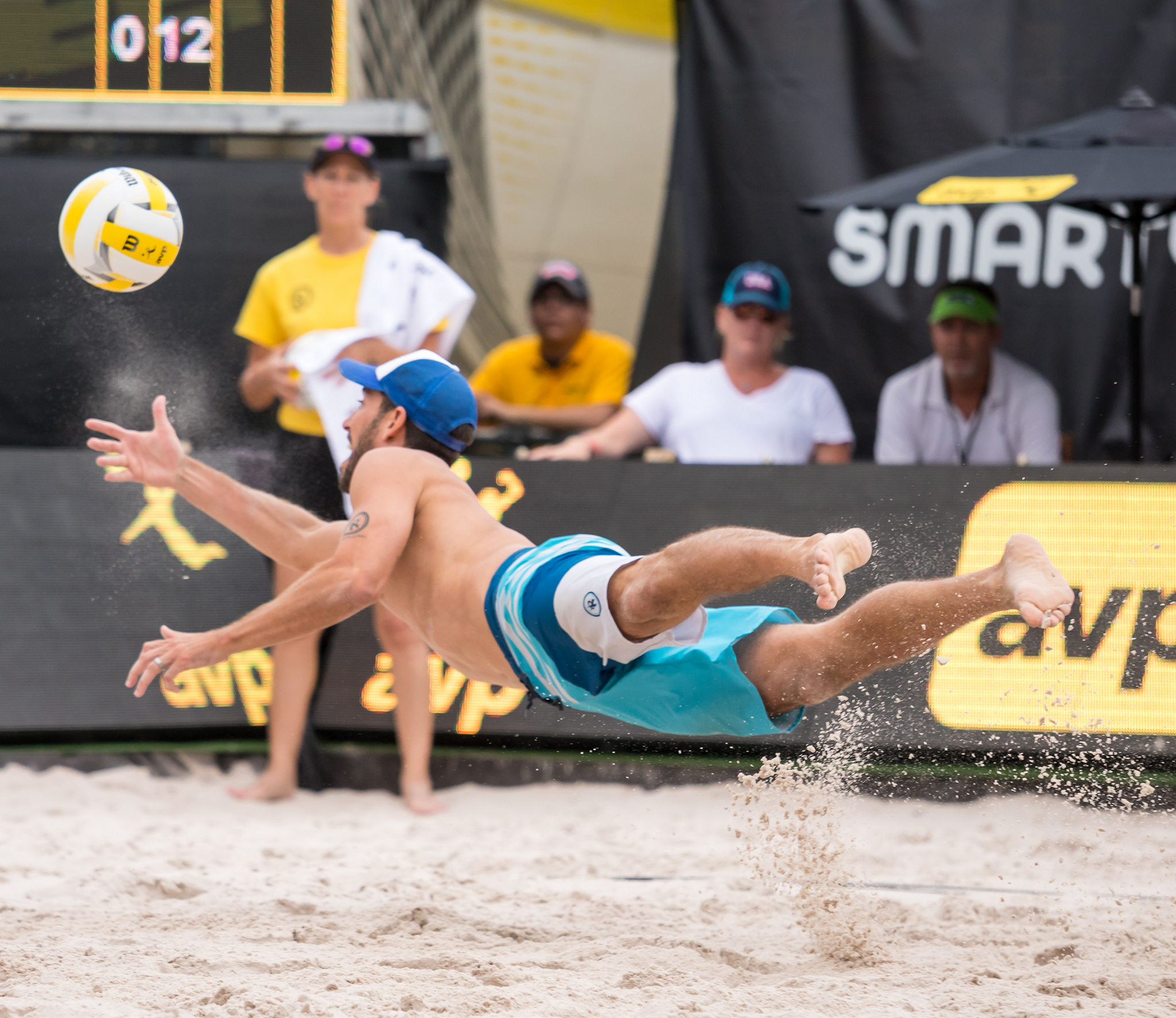 Nick Lucena at the AVP Austin Open professional beach volleyball tournament in Austin, Texas on May 21, 2017.